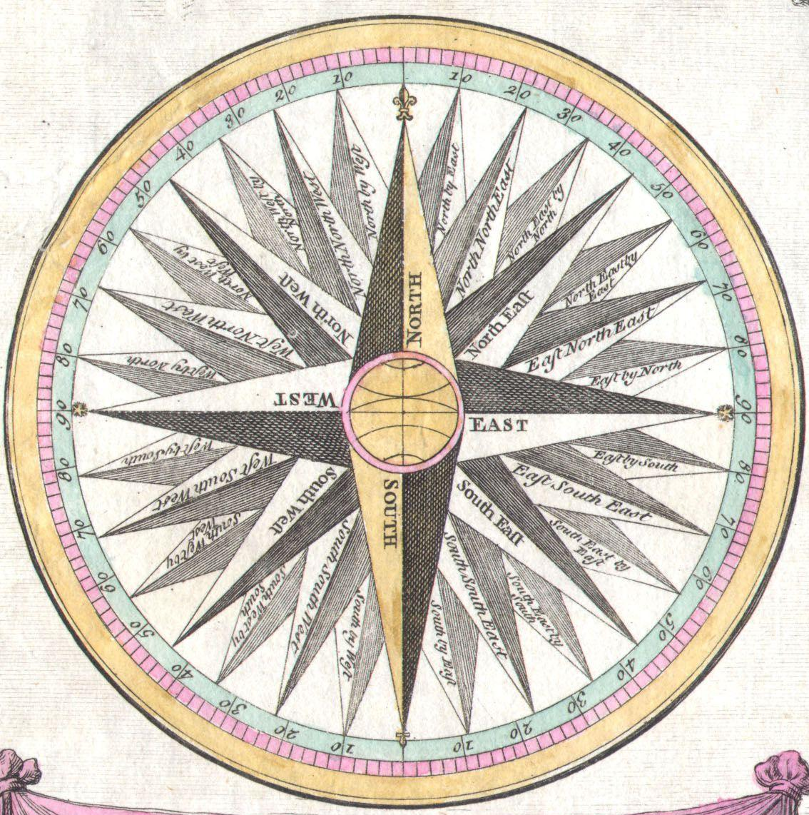 A beautiful and rare chart consisting of two engraved drawings within a single border. Left hand drawing, entitled “A Circle of Winds consisting of 32 points commonly called the Mariners Compass,” shows exactly that – a compass rose consisting of 32 points and decorated with images of ship and cherubs using nautical equipment. The right hand drawing, entitled “The Artificial Sphere,” features an Armillary Sphere and more navigating cherubs. An extremely attractive engraving. Prepared by Emanuel Bowen as plate no. 2 for the 1747 issue of Herman Moll’s Complete System of Geography .